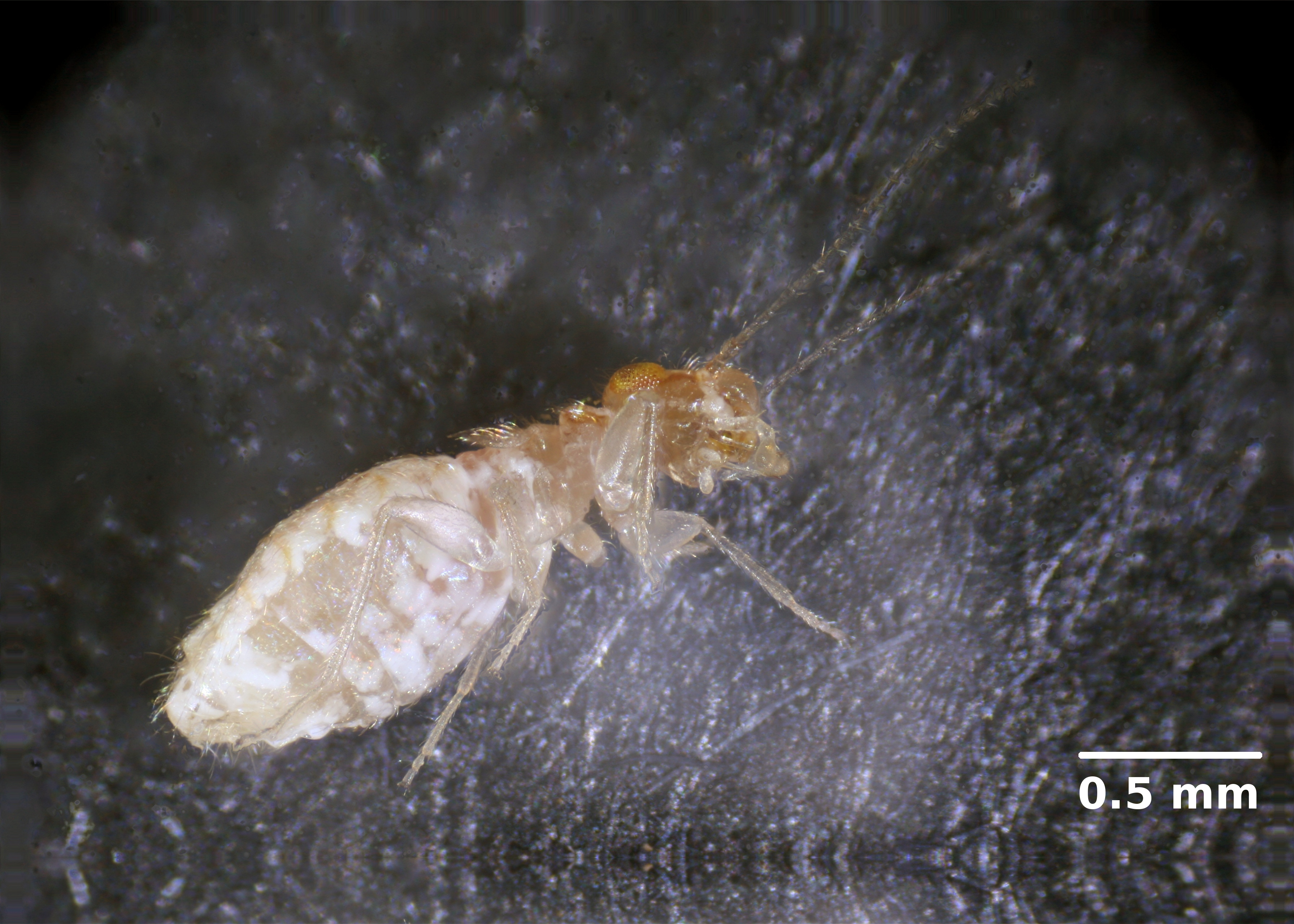 The side view of a paperlouse/booklouse. Wellington, New Zealand. This picture created by combining photographs taken through a microscope.